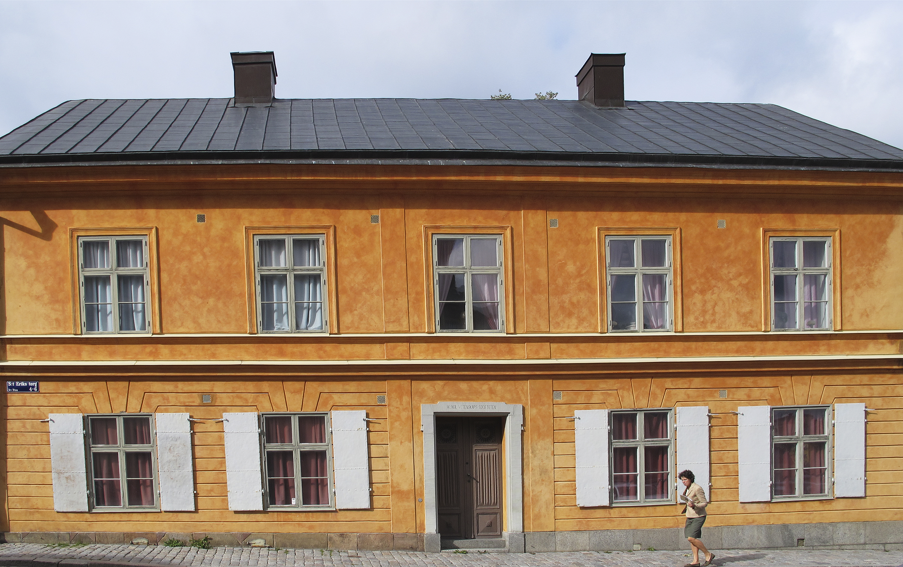 Royal Society of Sciences in Uppsala, Sweden